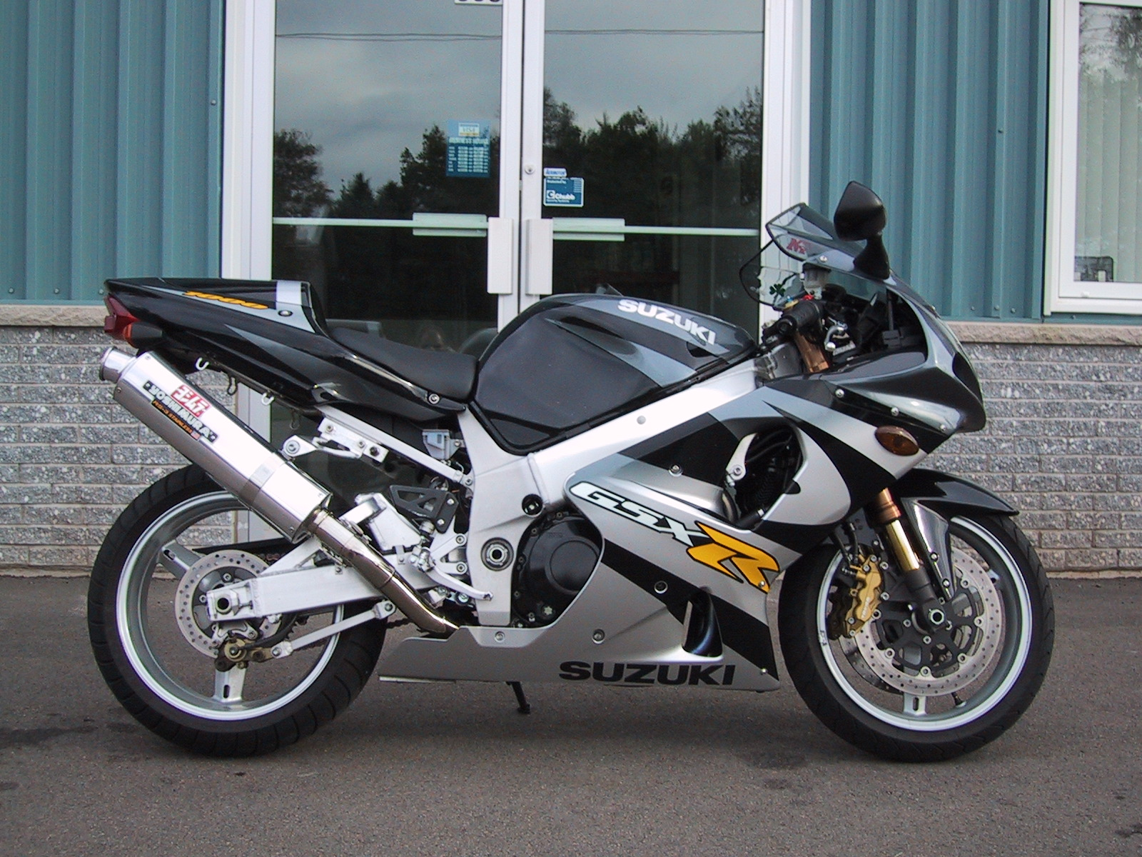 The side view of 2001 SUZUKI GSX-R1000